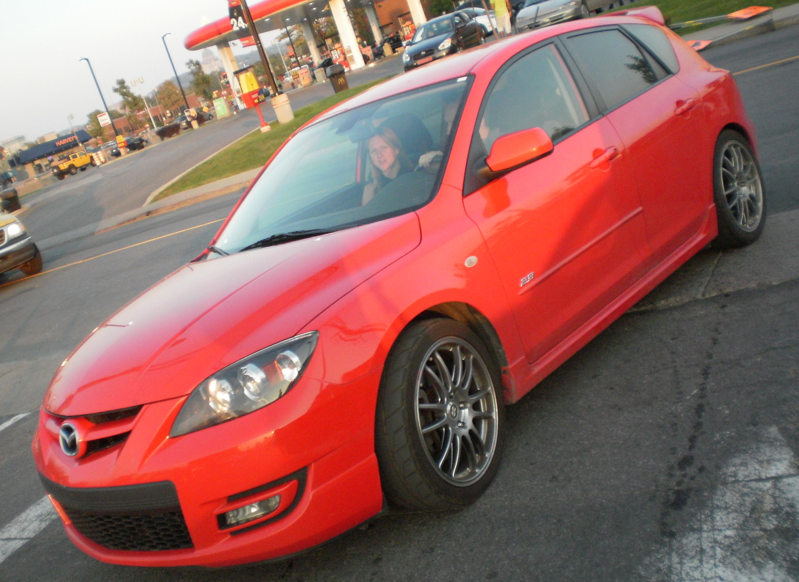 2007-2009 Mazdaspeed3 photographed in Montreal, Quebec, Canada at Gibeau Orange Julep.